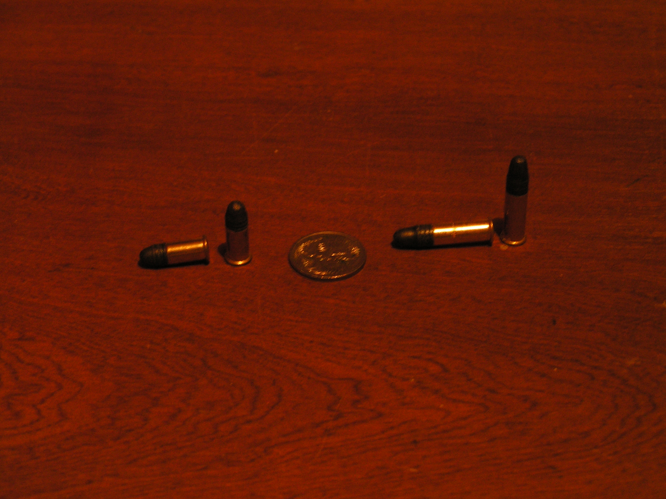 Some bullets, photographed by me.